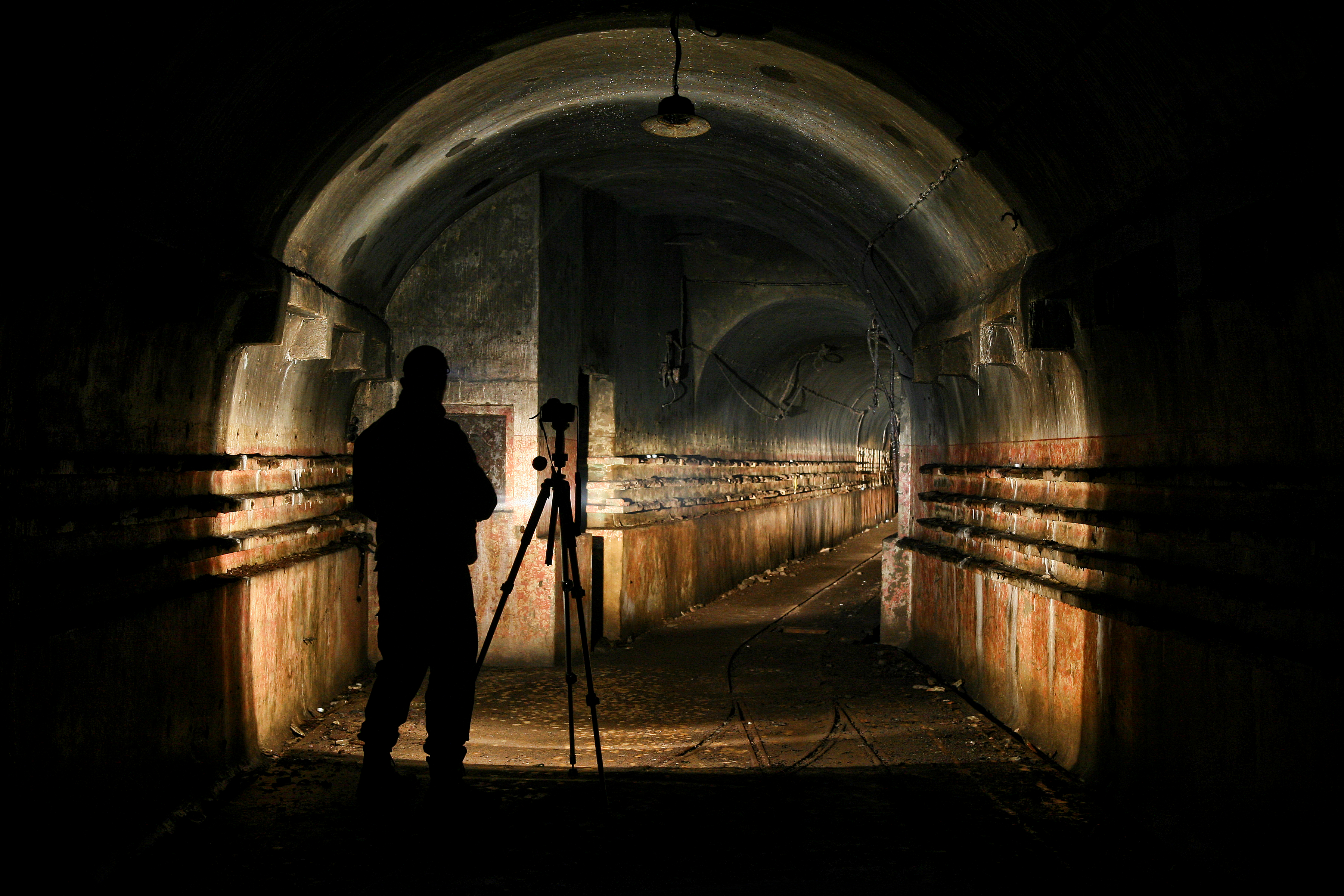 Urban Exploring in abandoned bunkers of the Maginot Line